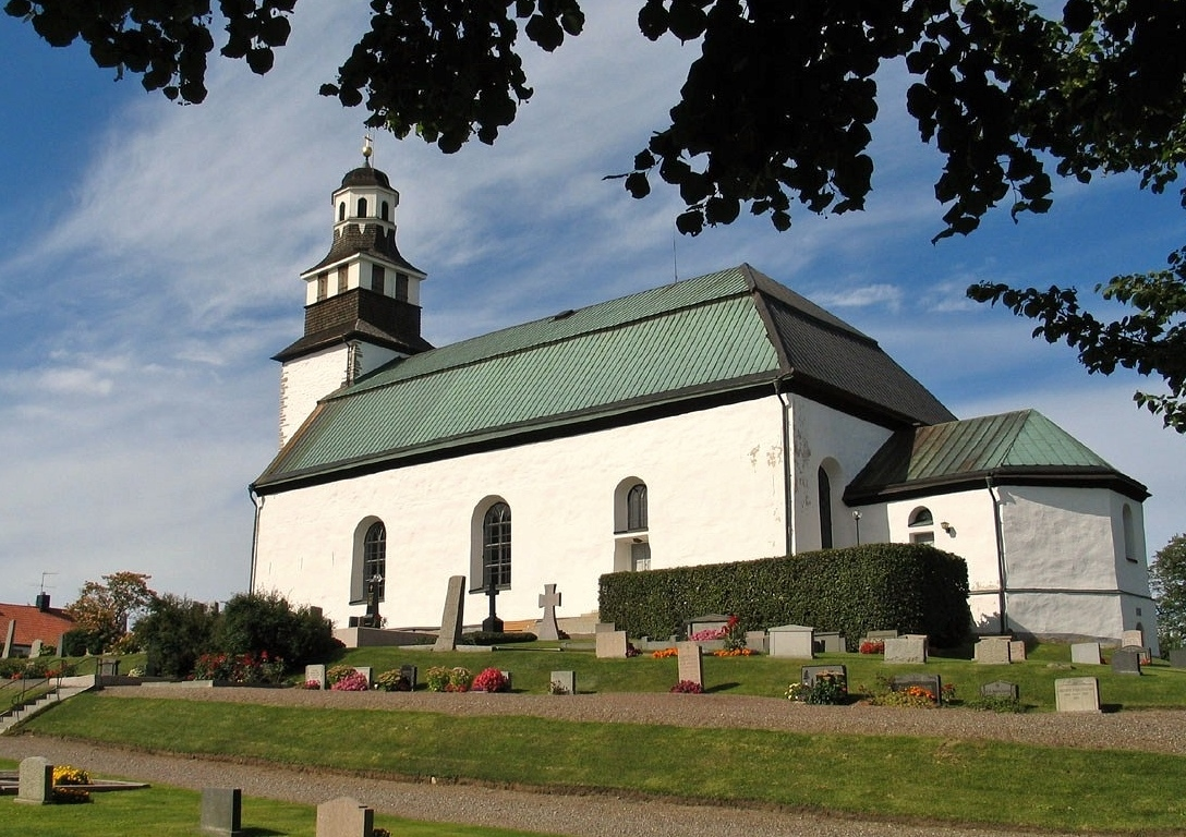 Stora Åby Church